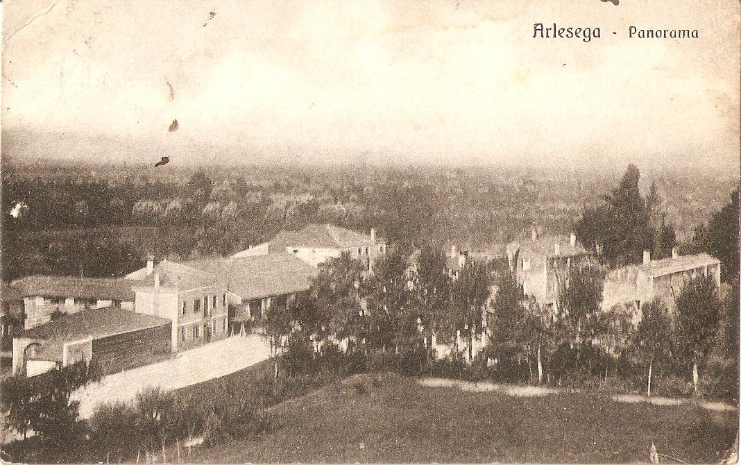 View of Arlesega di Mestrino (Padova, Italy)